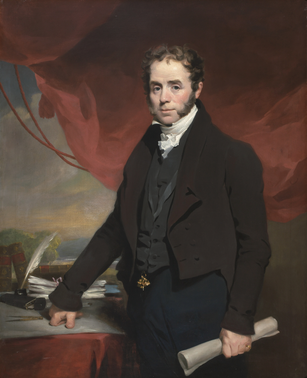 Graham-Gilbert, John; Robert Bald (1776-1861); Clackmannanshire Council